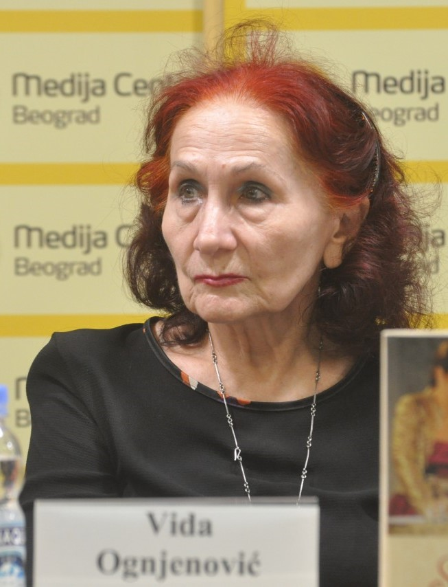 Vida Ognjenovic